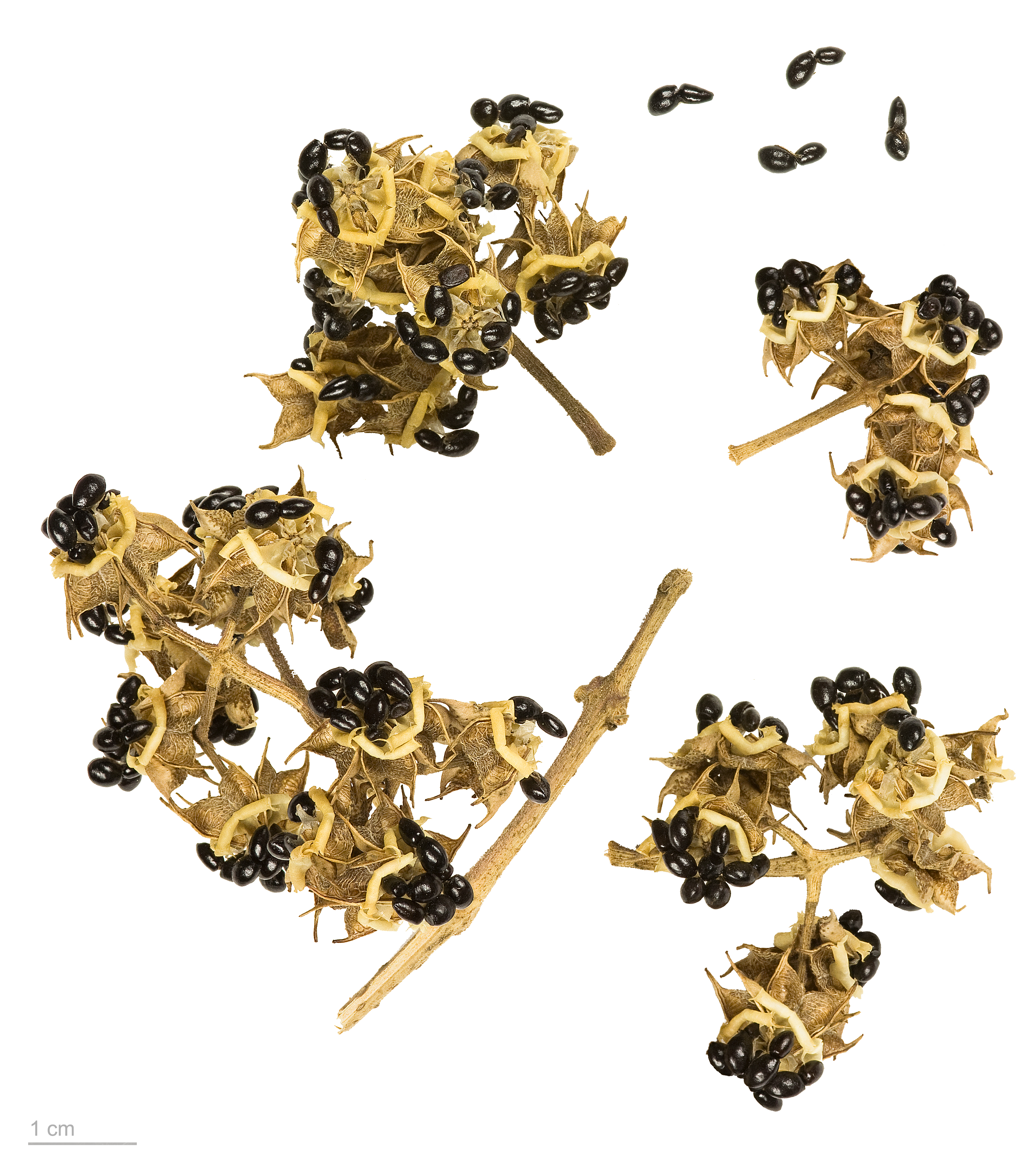 Bee bee tree, fruits and seeds